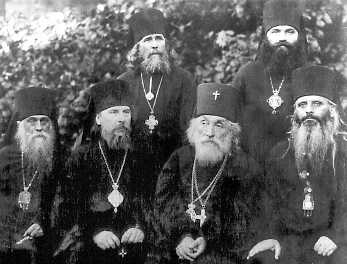 Kiev council of Ukrainian exarchate of Russian Orthodox Church (1-05-1926). Bishop Philaret (Linchevsky) of Cherkasy (stay left), bishop George (Deliev) (sit forth from left)